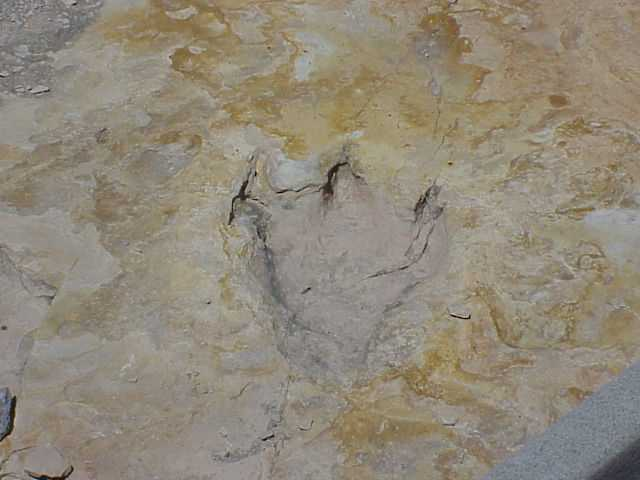 Fossilized dinosaur footprint, Clayton Lake State Park, New Mexico, USA